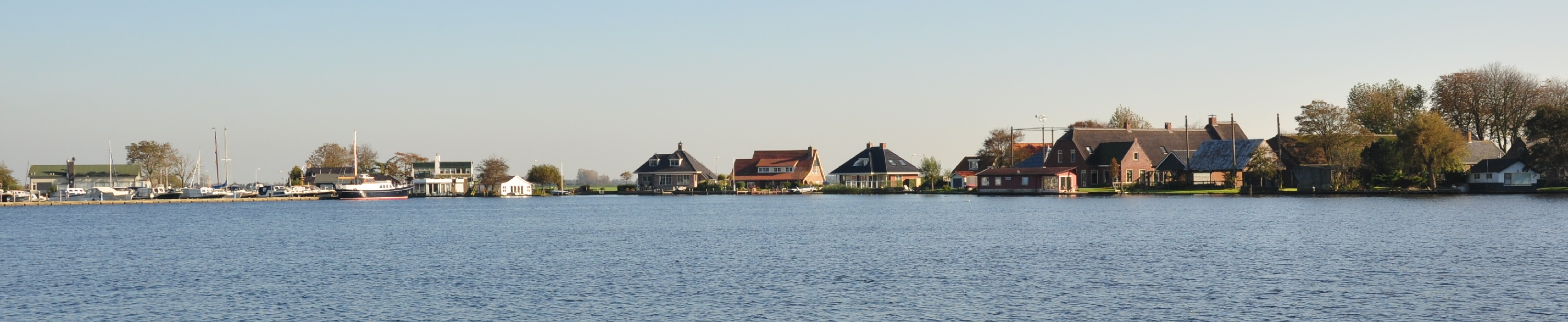 Vennemeer ("Lake Venne") in autumn, one of the Kaag lakes, near Leiden (Province of South Holland, Netherlands).